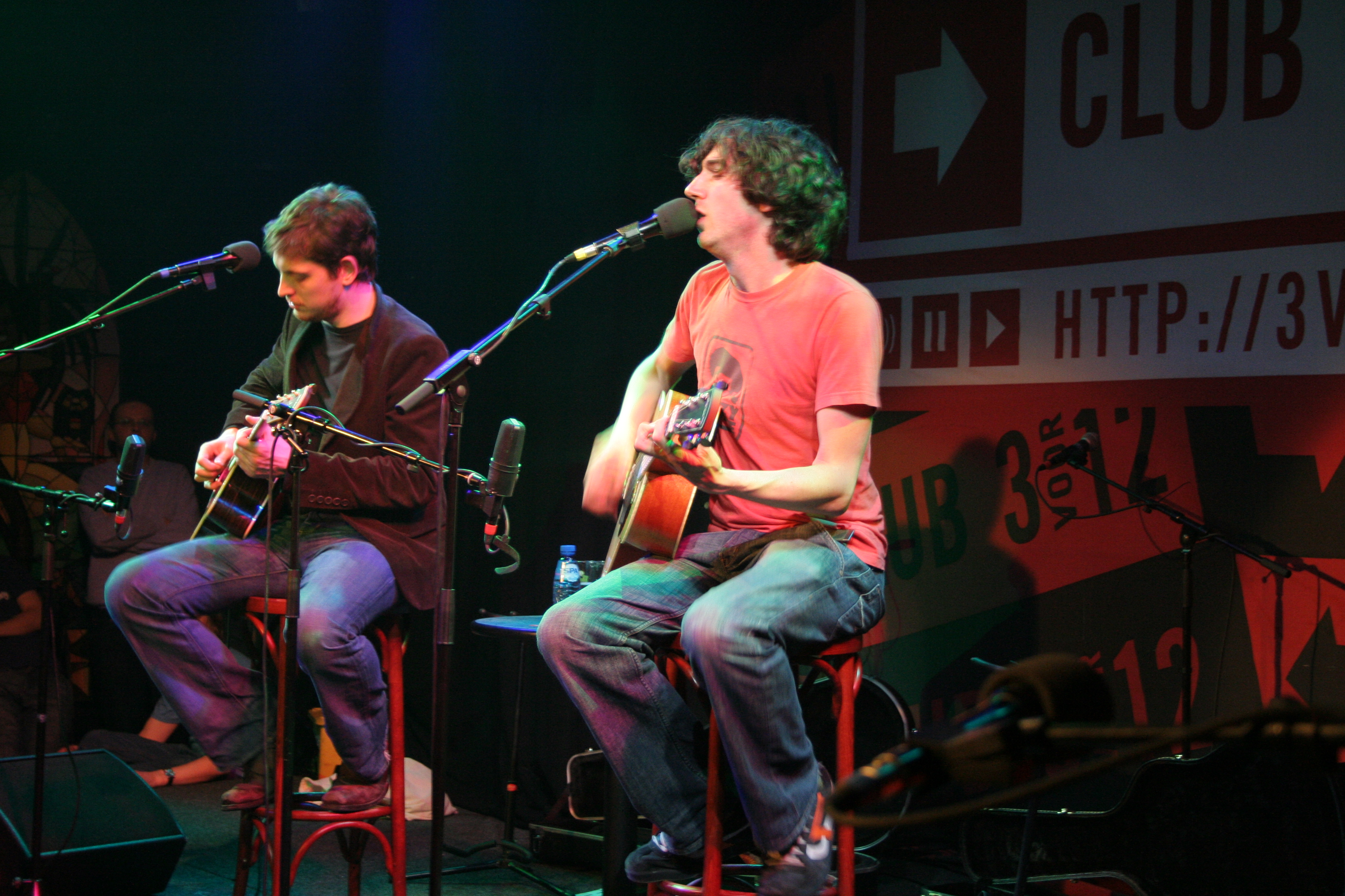 Nathan Connolly and Gary Lightbody perform an acoustic set for Dutch channel 3VOOR12 on 8 March 2006